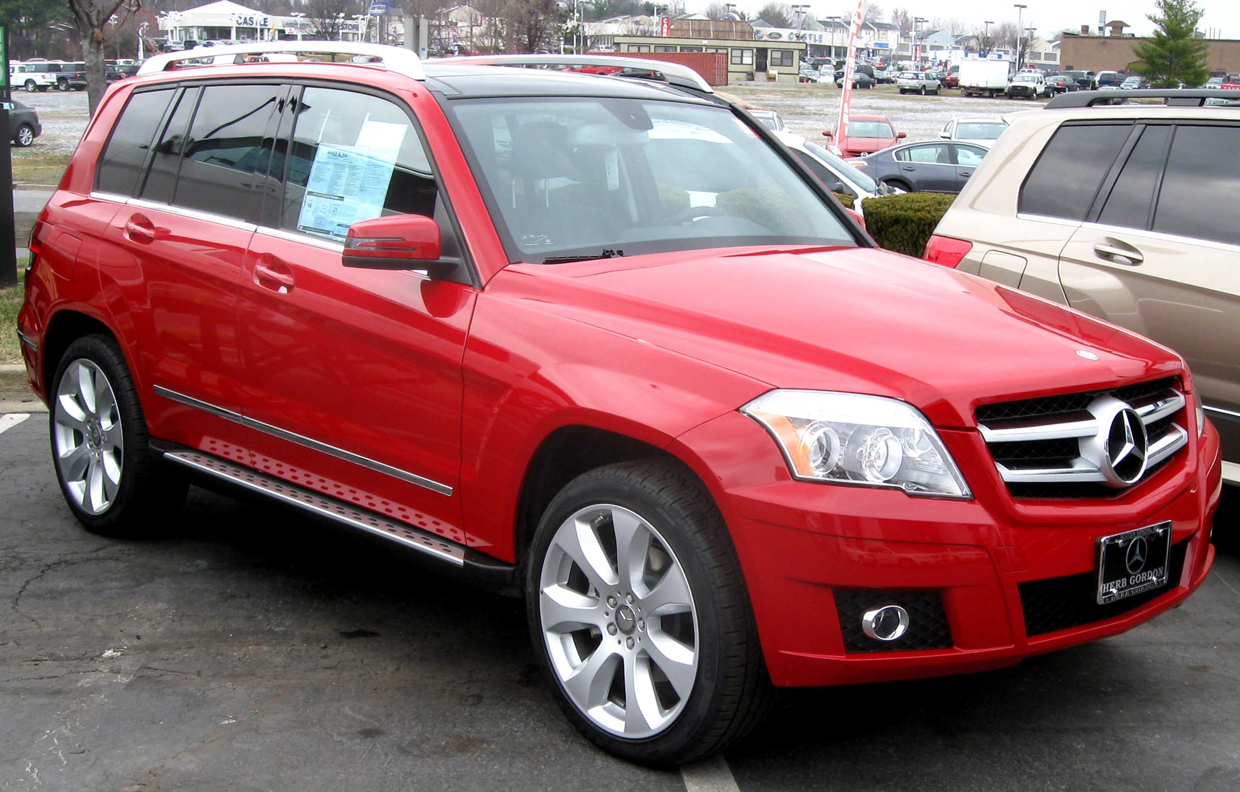 2010 Mercedes-Benz GLK350 photographed in Silver Spring, Maryland, USA.